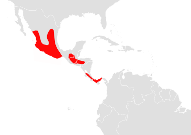 Distribution of Artibeus aztecus